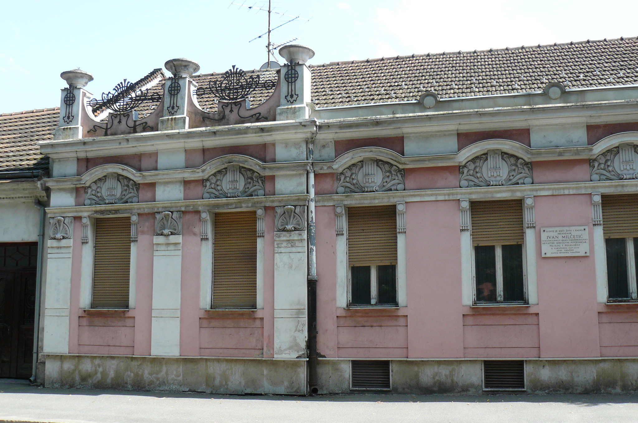 Varazdin - Milcetic House.